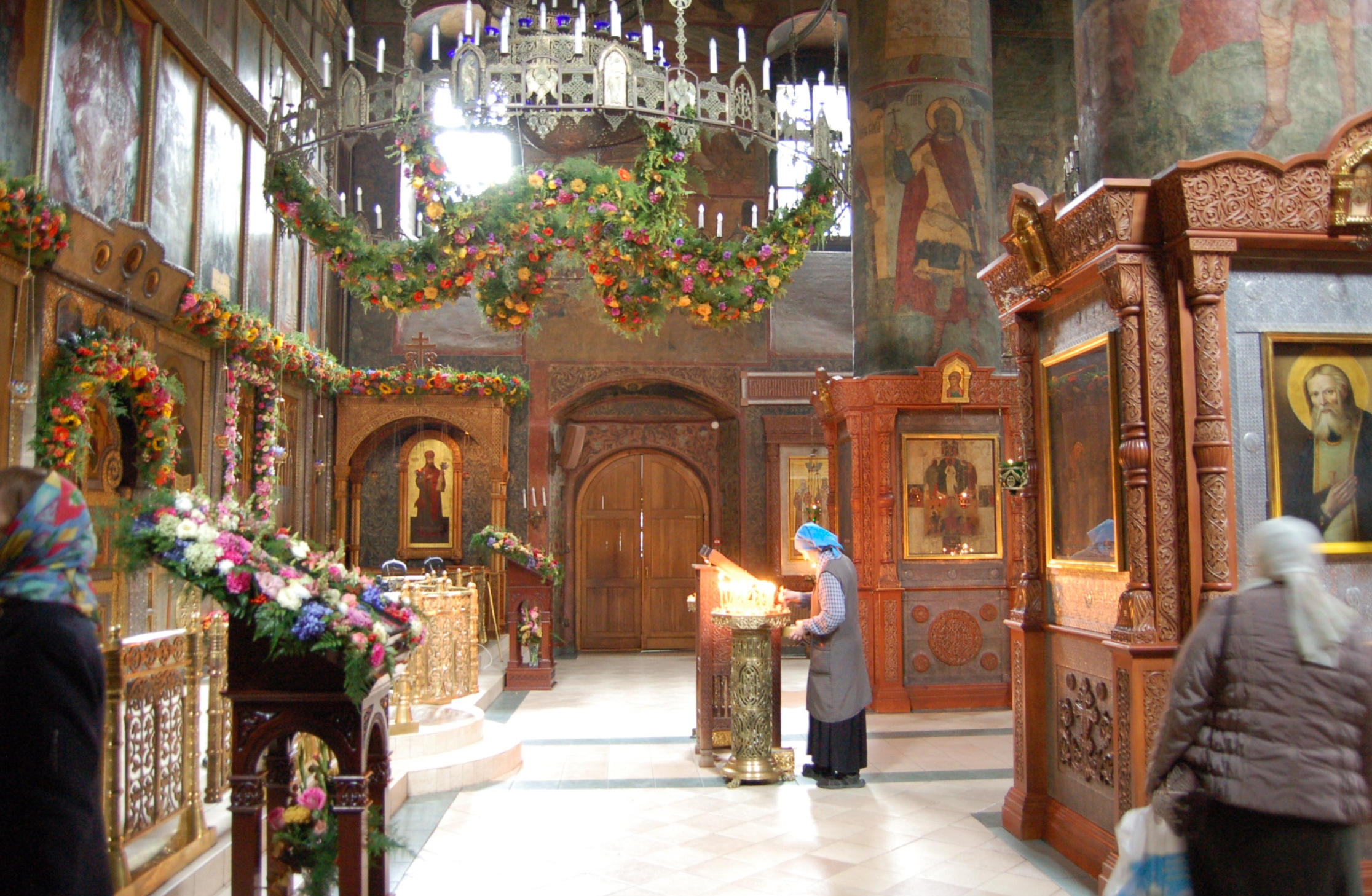 Moscow Churches, photographed September 2015 Stretensky Monastery